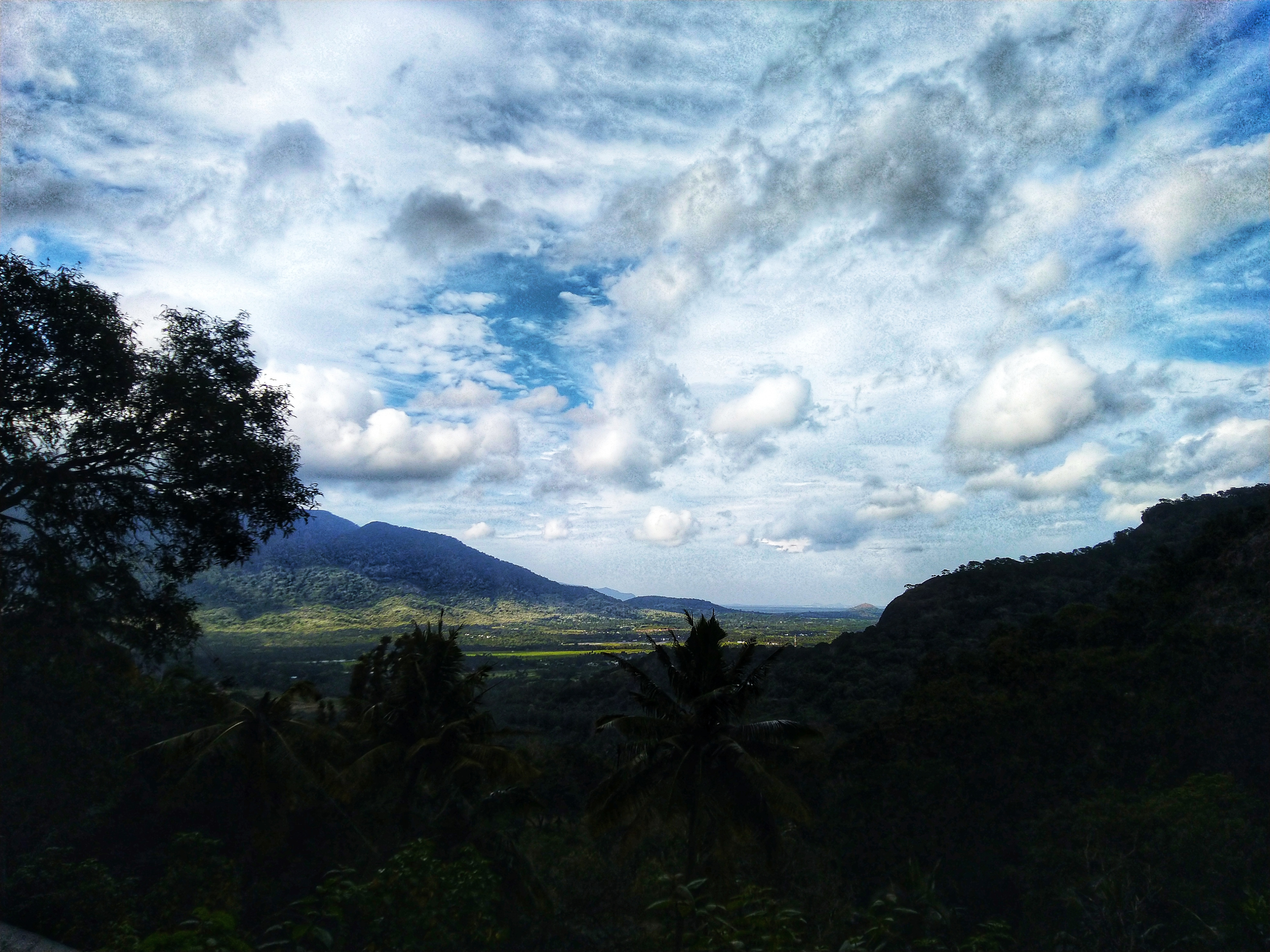 Aryankavu churam ...Kerala Tamilnadu border